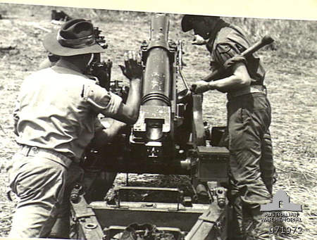 Gunners from the 2/14th Field Regiment, RAA, Australian Army firing a Ordnance QF 25-pounder Short, near the Masaweng River, New Guinea, March 1944